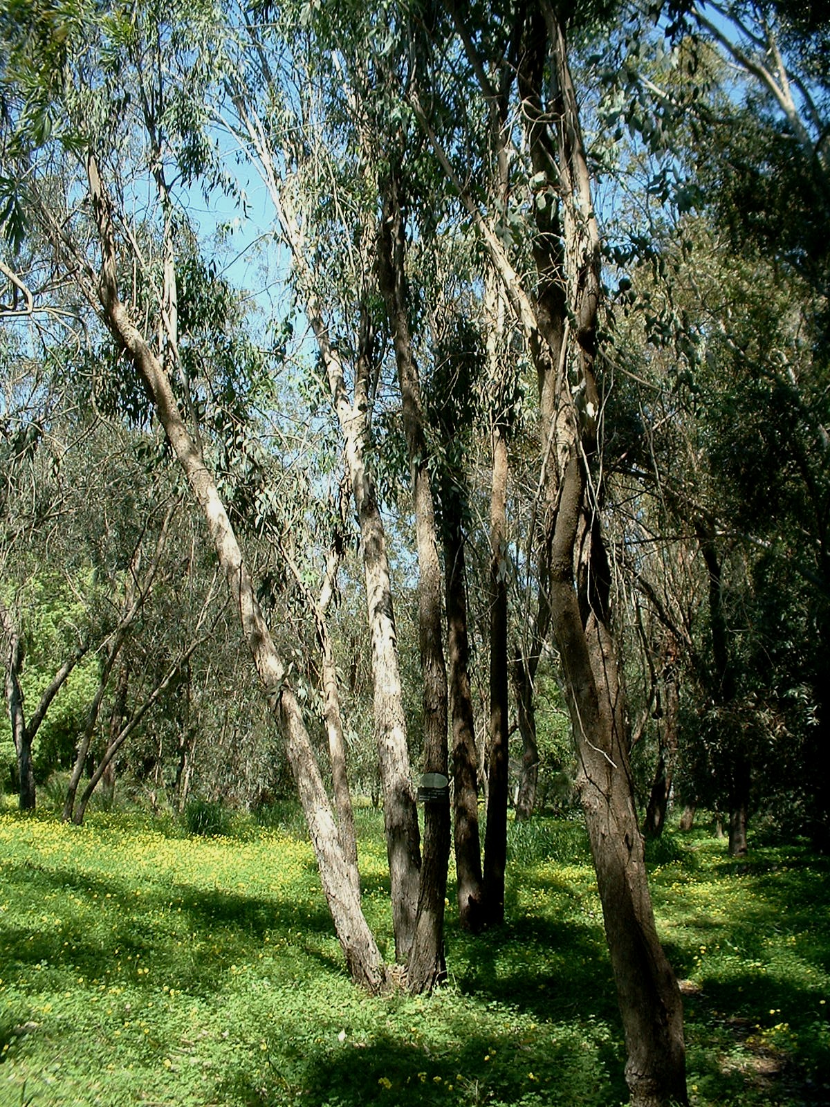 Eucalyptus albens at the Ilanot national arboretum, Israel.